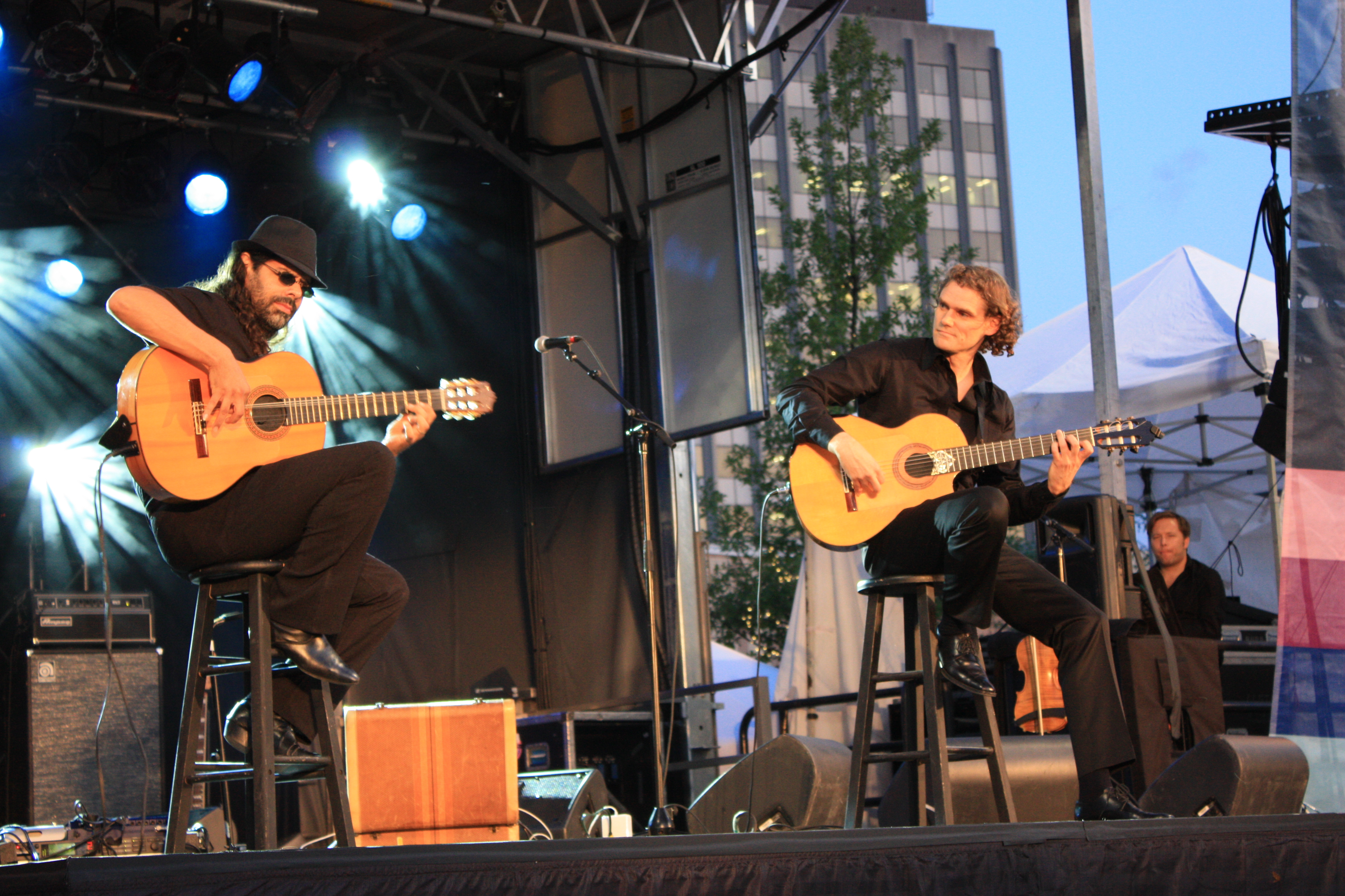 Jesse Cook performing at The Shops at Don Mills, July 31st, 2009